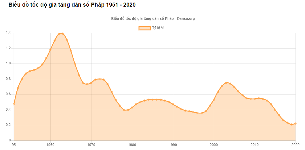 France's population graph